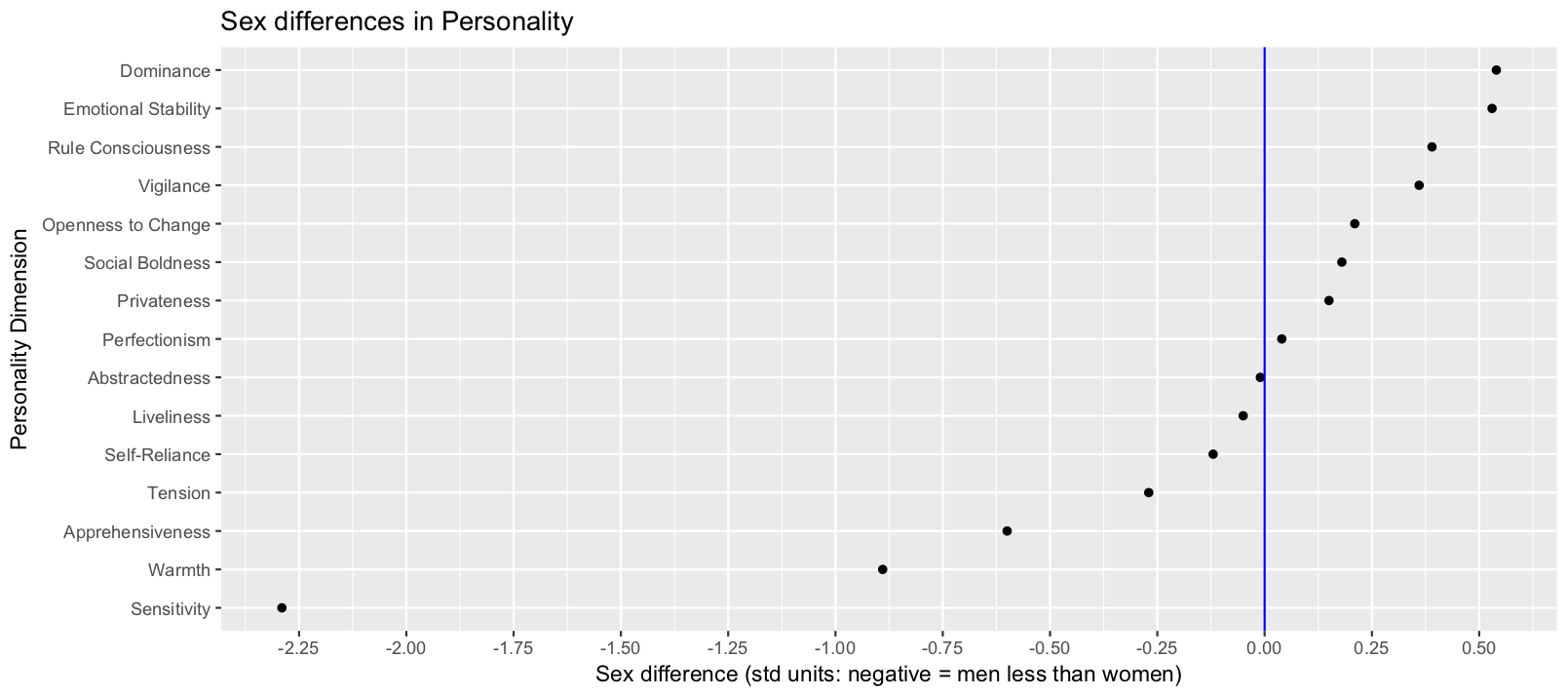 A graph of sex differences in personality. R code to recreate this is included in additional info below